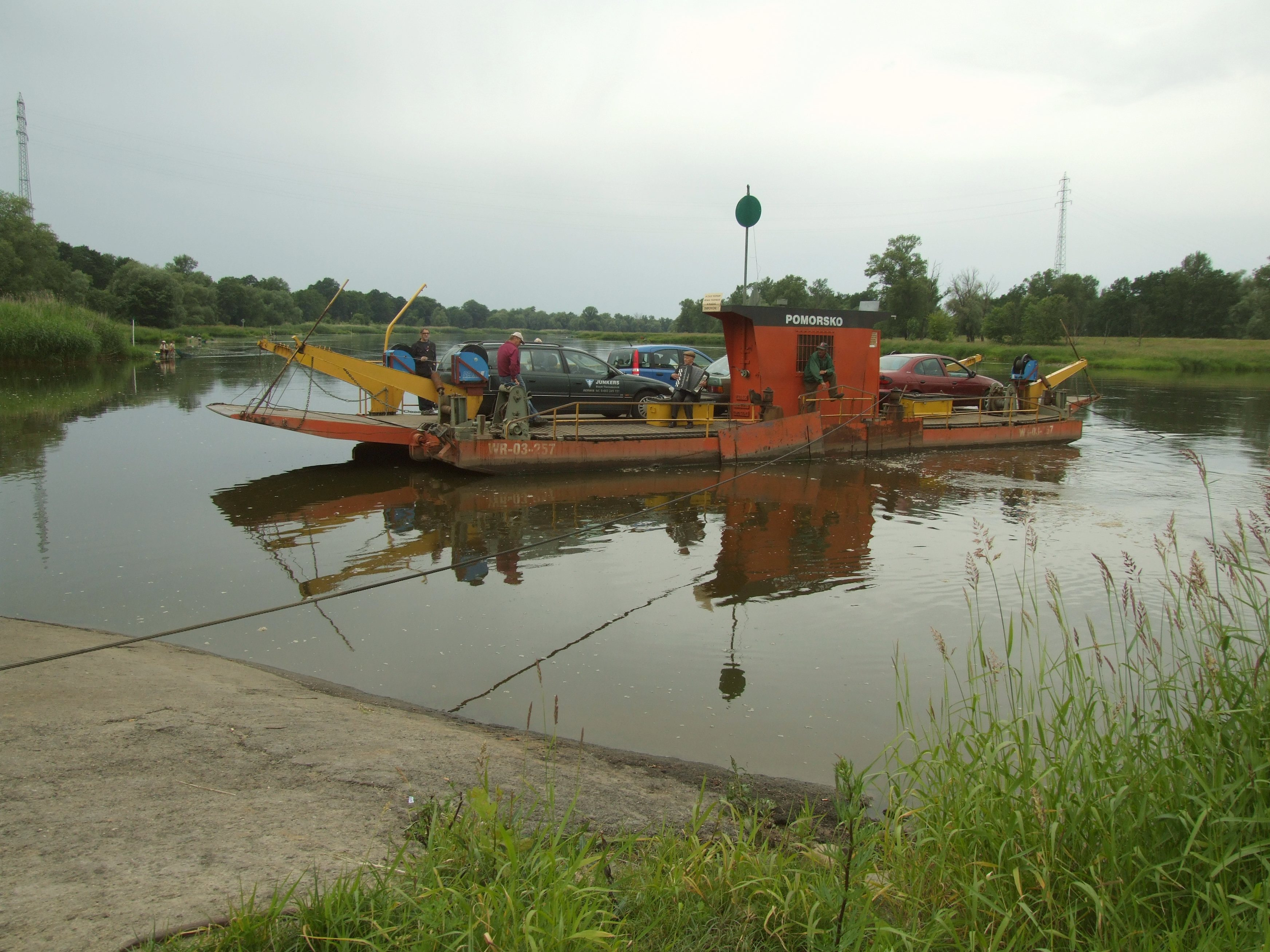 a ferry in Pomorsko, Poland